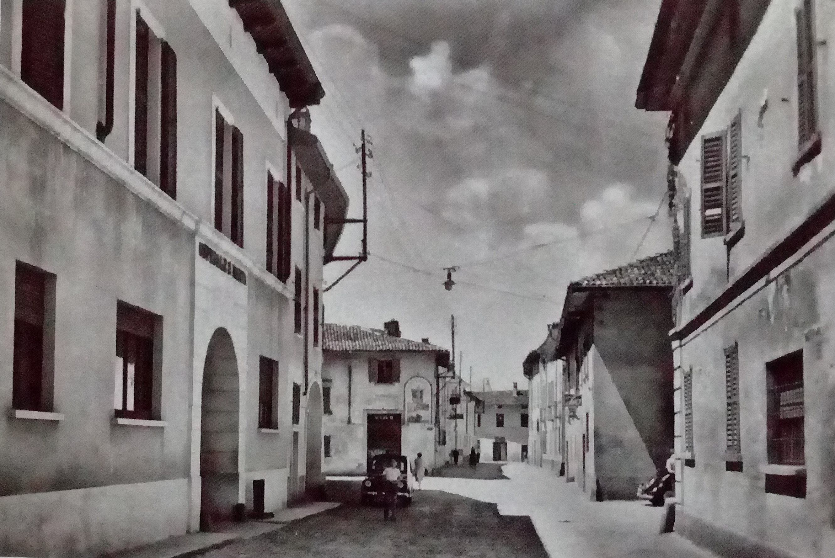 Via Garibaldi in Rivolta d'Adda (Cremona), in a postcard from the early twentieth century